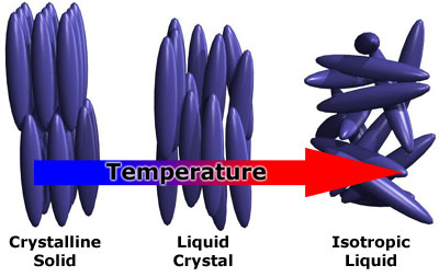 Description of the liquid crystal phase by comparison to others. At low temperatures, one would expect crystalline solids. At higher temperatures, one would expect disordered liquids. For some materials, at intermediate temperatures a liquid-crystal state is achieved, which has fluidity but crystal-like order.